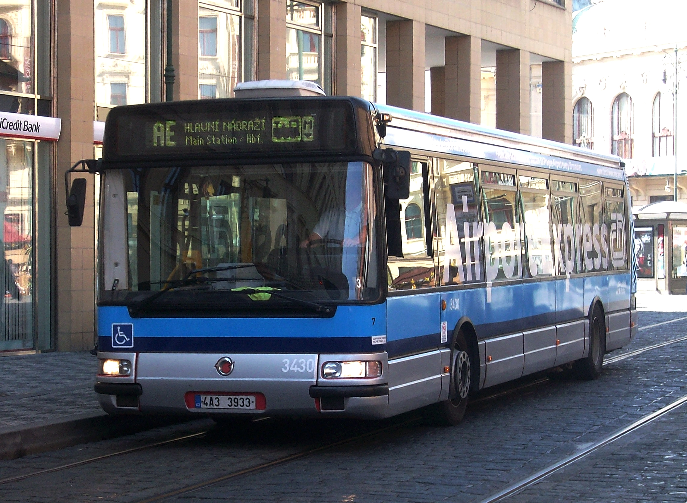 Irisbus Agora S in Prague